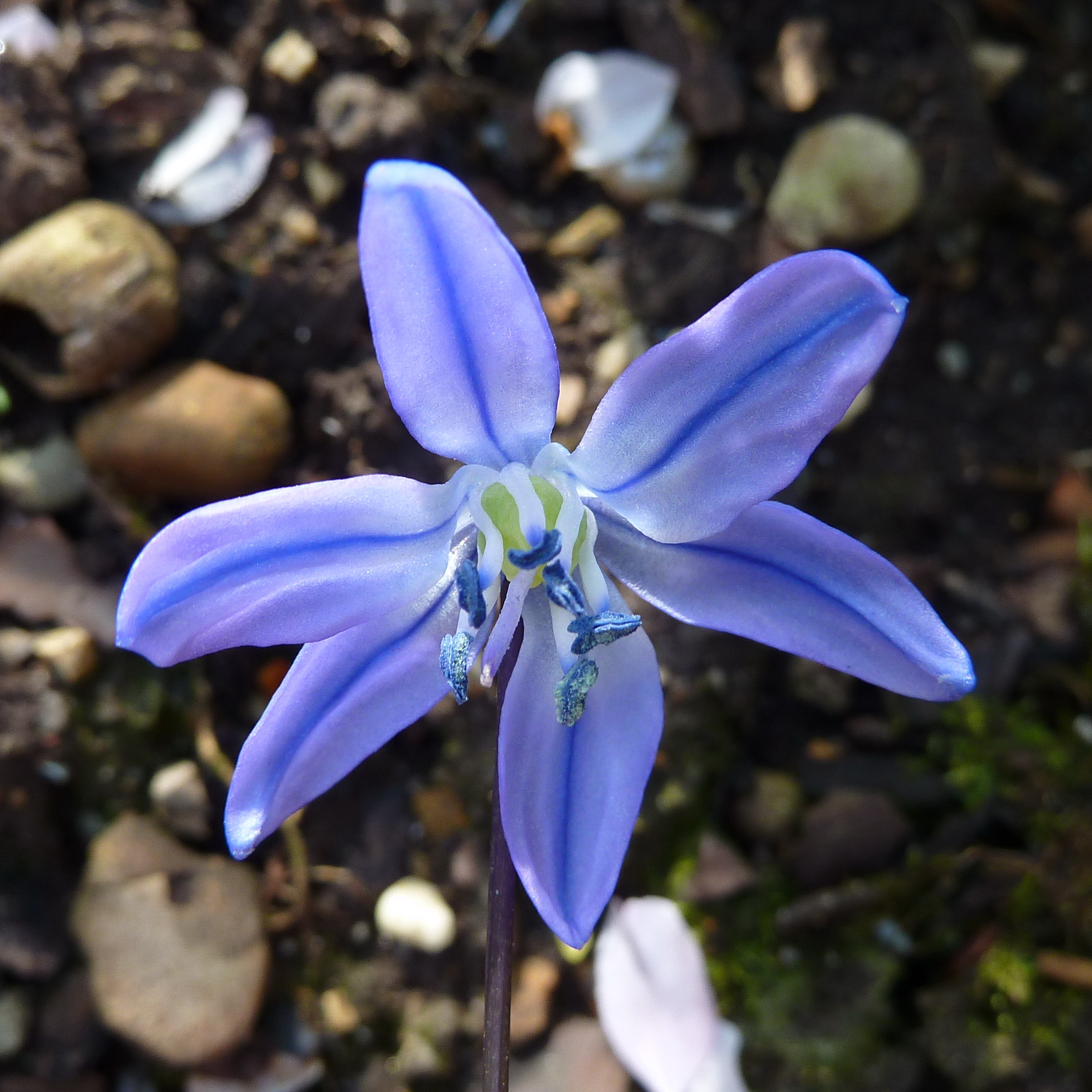 Siberian squill (Scilla siberica)